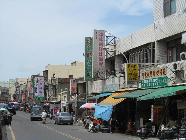 Fanghan Road, Wanggong Village, Fangyuan Township, Changhua County, Taiwan Province, Republic of China